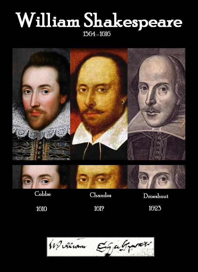 An image showing direct comparisons between the Shakespeare of the Cobbe Portrait, the Chandos Portrait and the Droeshout Engraving.